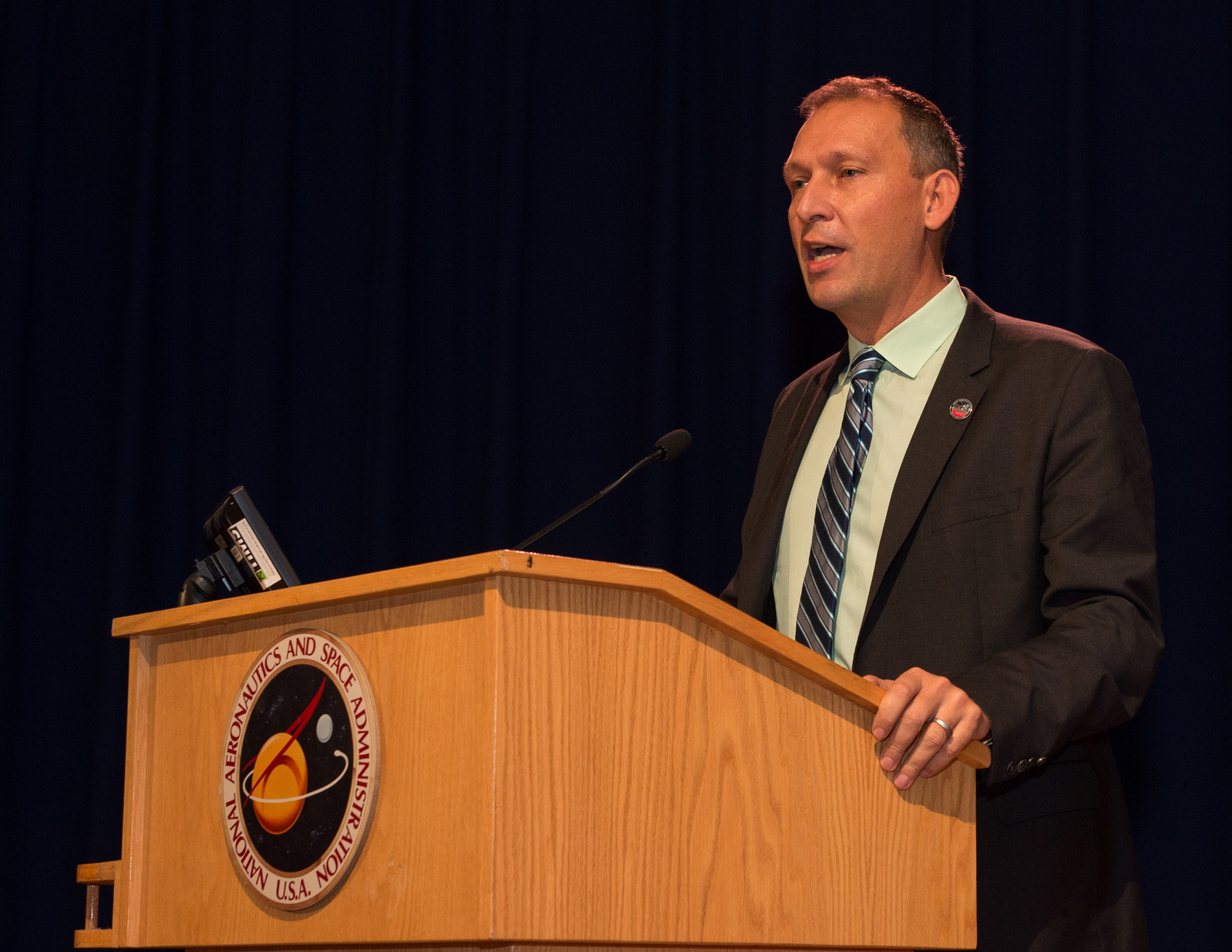 Goddard employees were invited to a town hall with NASA Administrator Charlie Bolden, Associate Administrator for the NASA Science Mission Directorate Thomas Zurbuchen and Goddard Center Director Chris Scolese, Nov. 2, at 11:30 a.m. in the Hinners Auditorium in Building 8. Bolden thanked the James Webb Space Telescope team at Goddard as well as our international and corporate partners for their exceptional support. Credit: NASA/Goddard